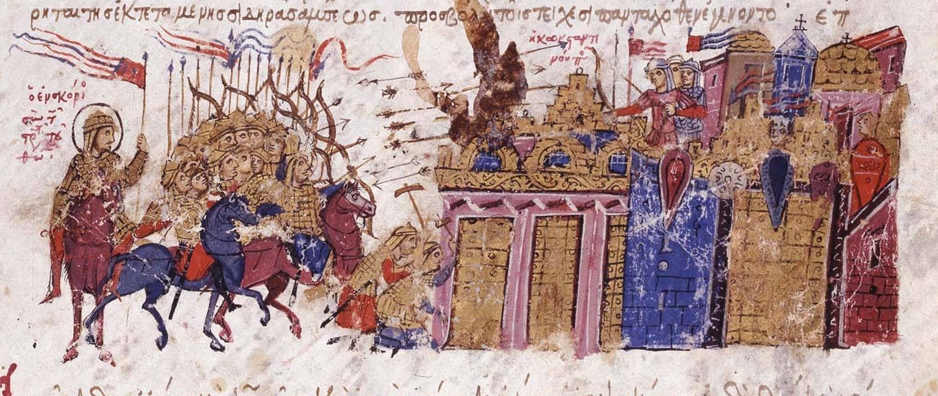 The troops of Thomas the Slav attack the walls of Constantinople